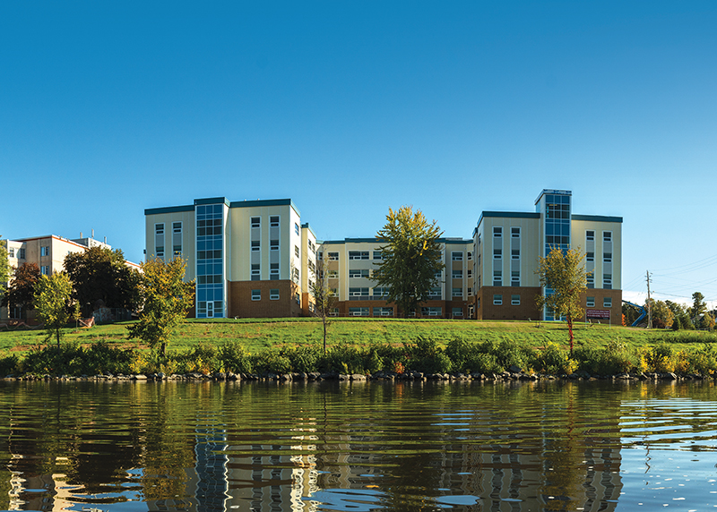 Bruyère Village over the river